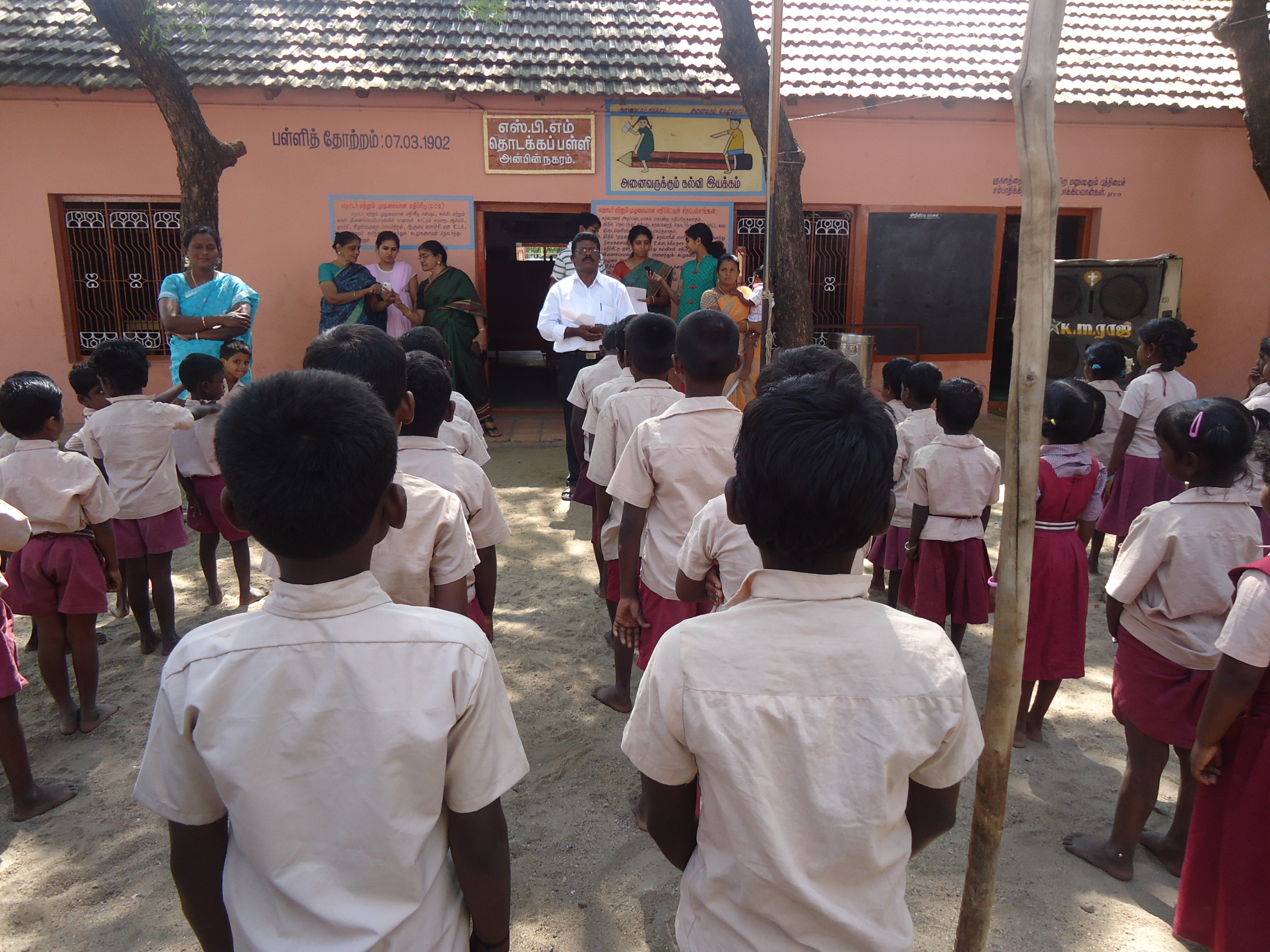 S B M PRIMARY SCHOOL..